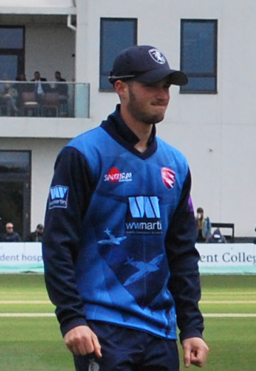 Kent cricketer Ollie Robinson fielding at Beckenham in May 2019 in a One Day Cup match against Essex.